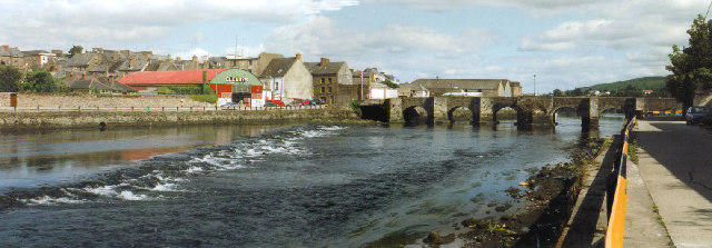 Carraig na Siúire (Carrick-on-Suir): The Old Bridge. Originally built in 1447 by Edmund MacRichard Butler at the tidal limits of the River Suir, the bridge was for centuries the first bridge above the estuary of the river, and hence strategically important as a link between south Leinster and east Munster. A second bridge, known as the Dillon or New Bridge, was subsequently built some 300 metres downstream in the 19th Century.